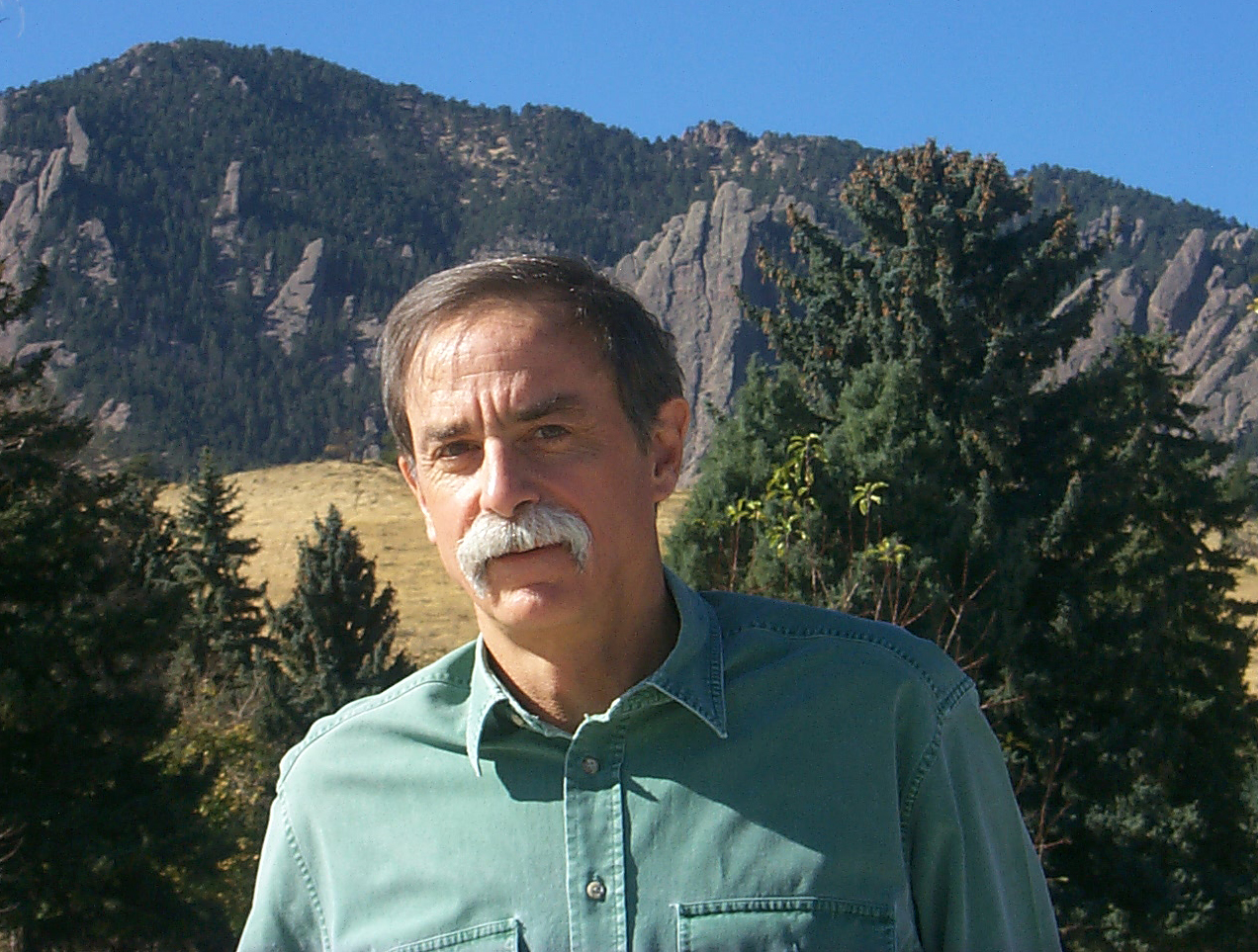 Physicist David J. Wineland of NIST Boulder Laboratories in Colorado